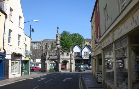 Market Cross, Malmesbury